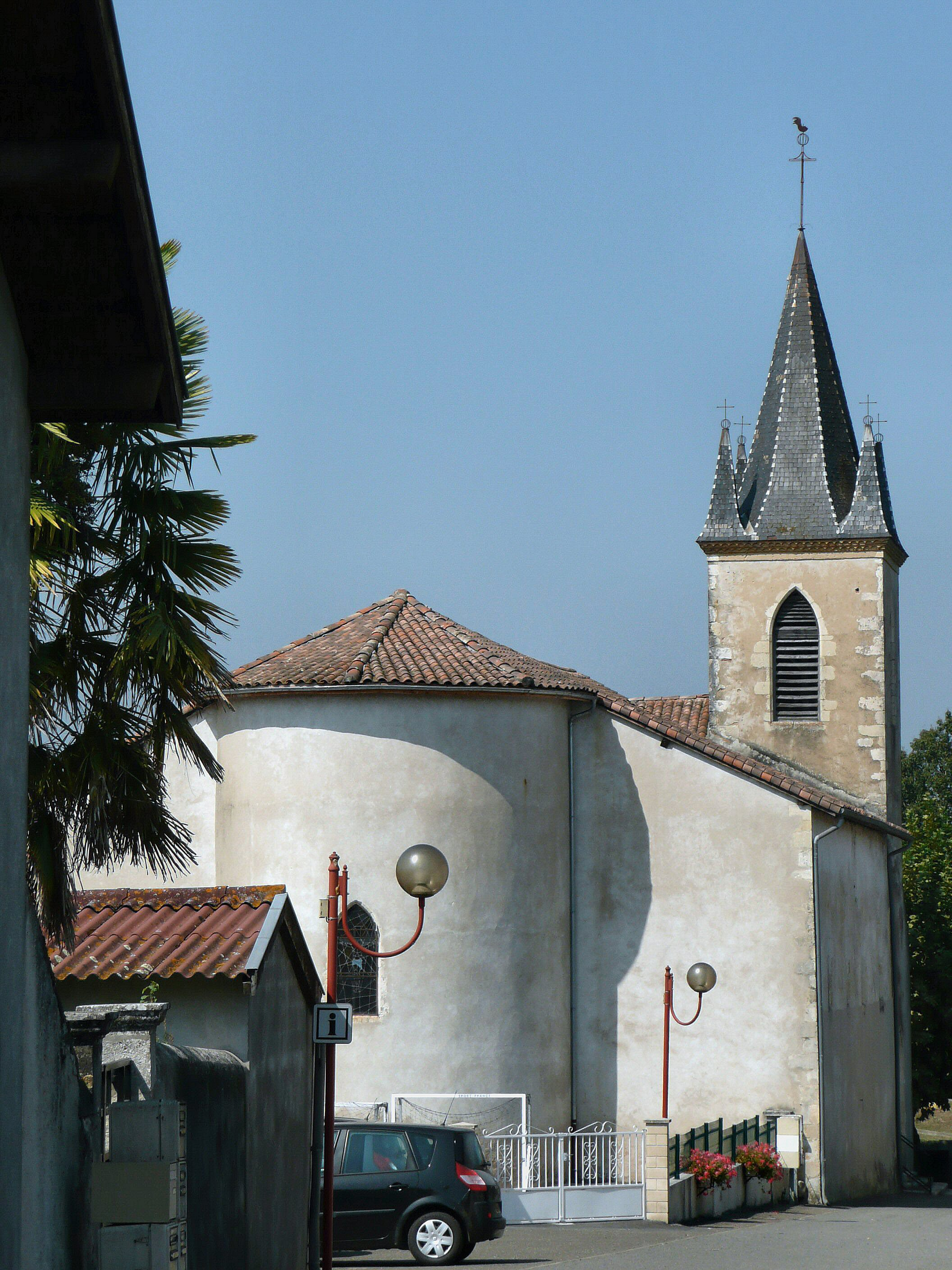 Chevet of the Church of Montgaillard (Landes, France)